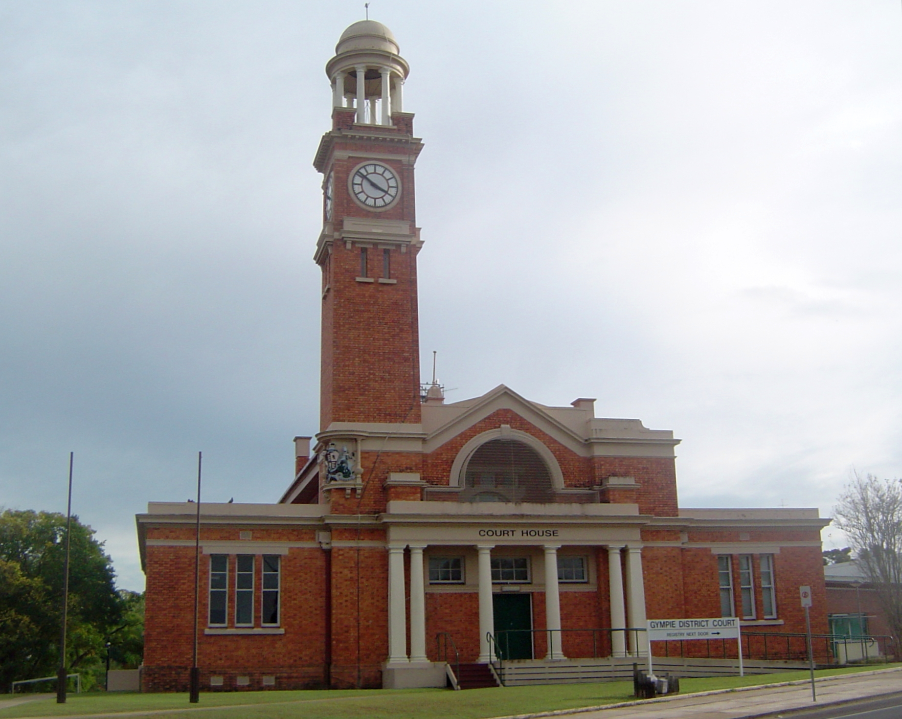 Photo of Gympie Court House in Channon Street, Gympie, Queensland, Australia.